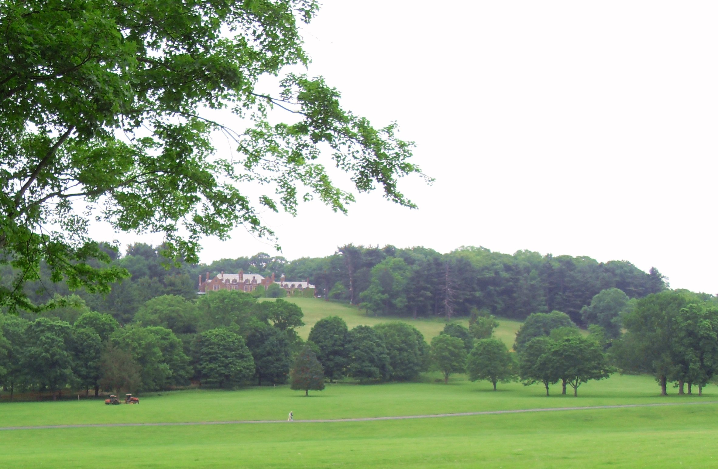 Natirar Park and Mansion, Somerset County, New Jersey